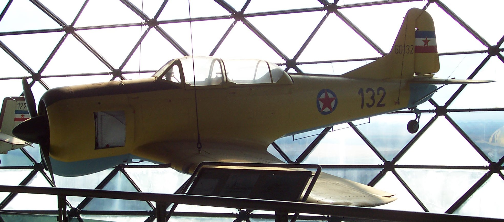 Image shows Yugoslav airplane type 522, in the Museum of Yugoslav Aviation, Belgrade, Serbia. Airplane was used for pilot training in 1950's and 1960's.